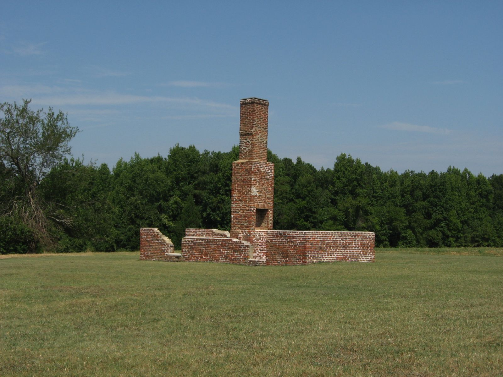 Ruins of pre-war slave quarters of Taylor Family Plantation on the Petersburg Battlefield